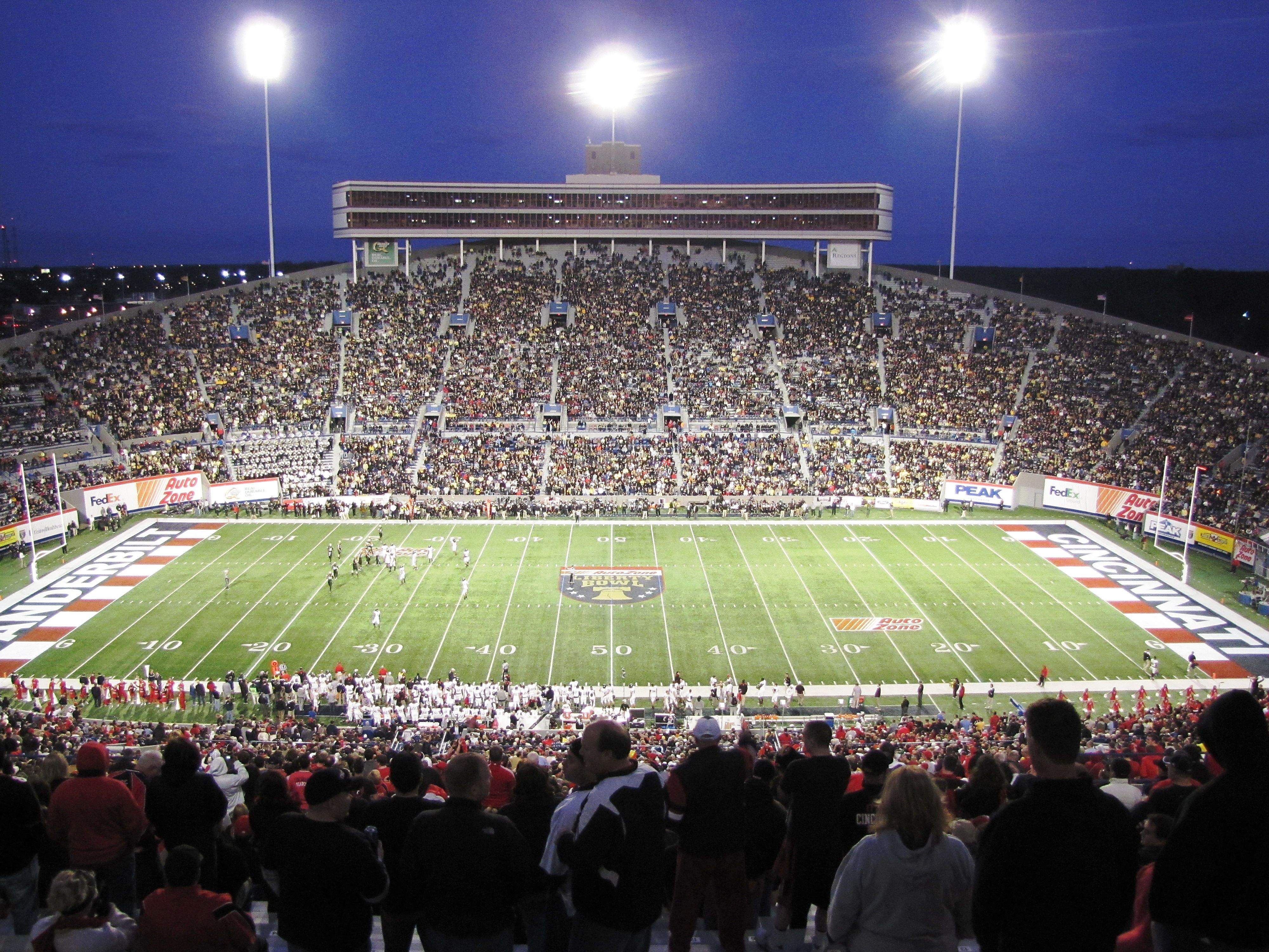 2011 Liberty Bowl Cincinnati Bearcats vs. Vanderbilt Commodores